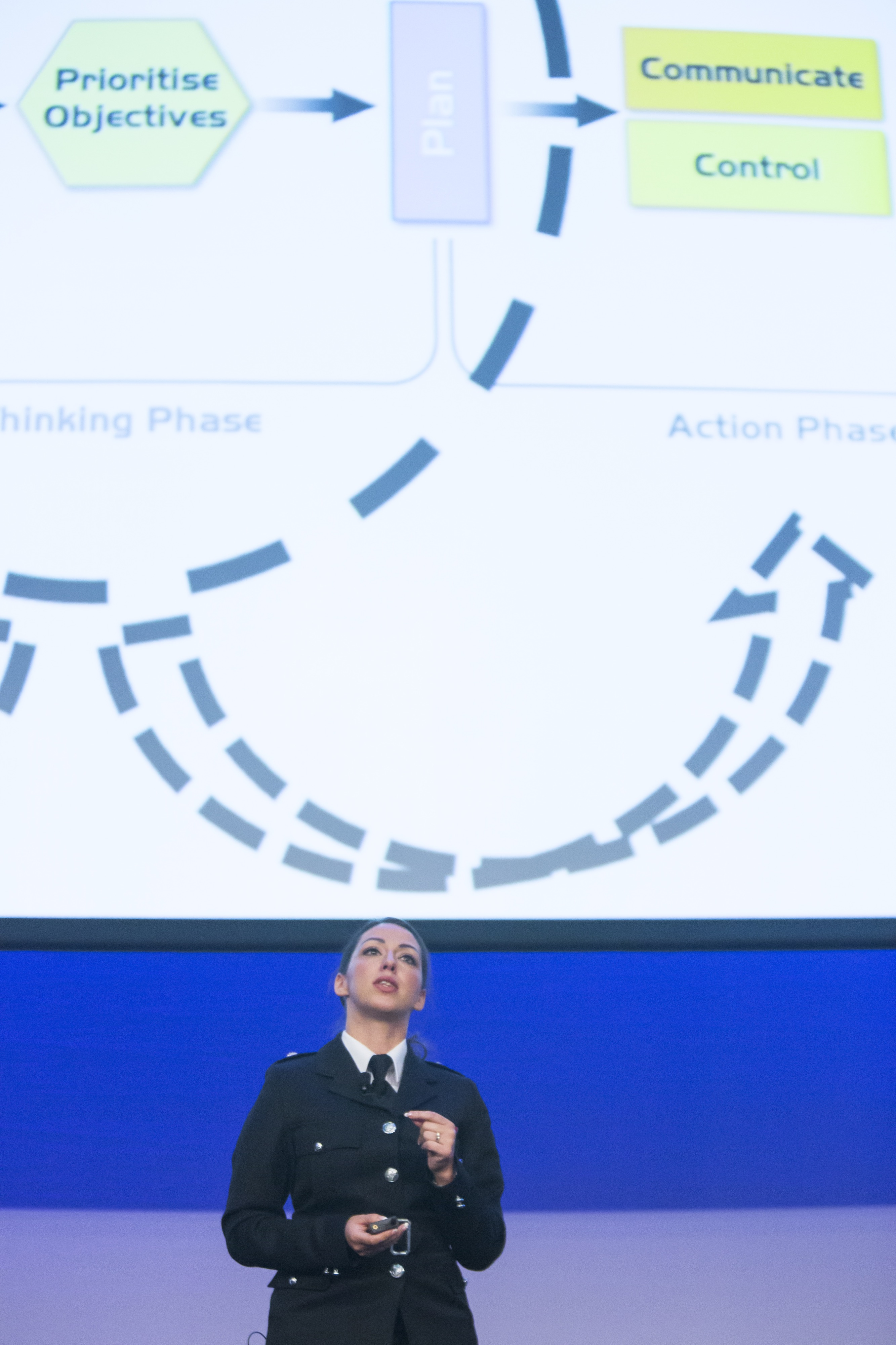 Dr Sabrina Cohen-Hatton London Fire Brigade, UK